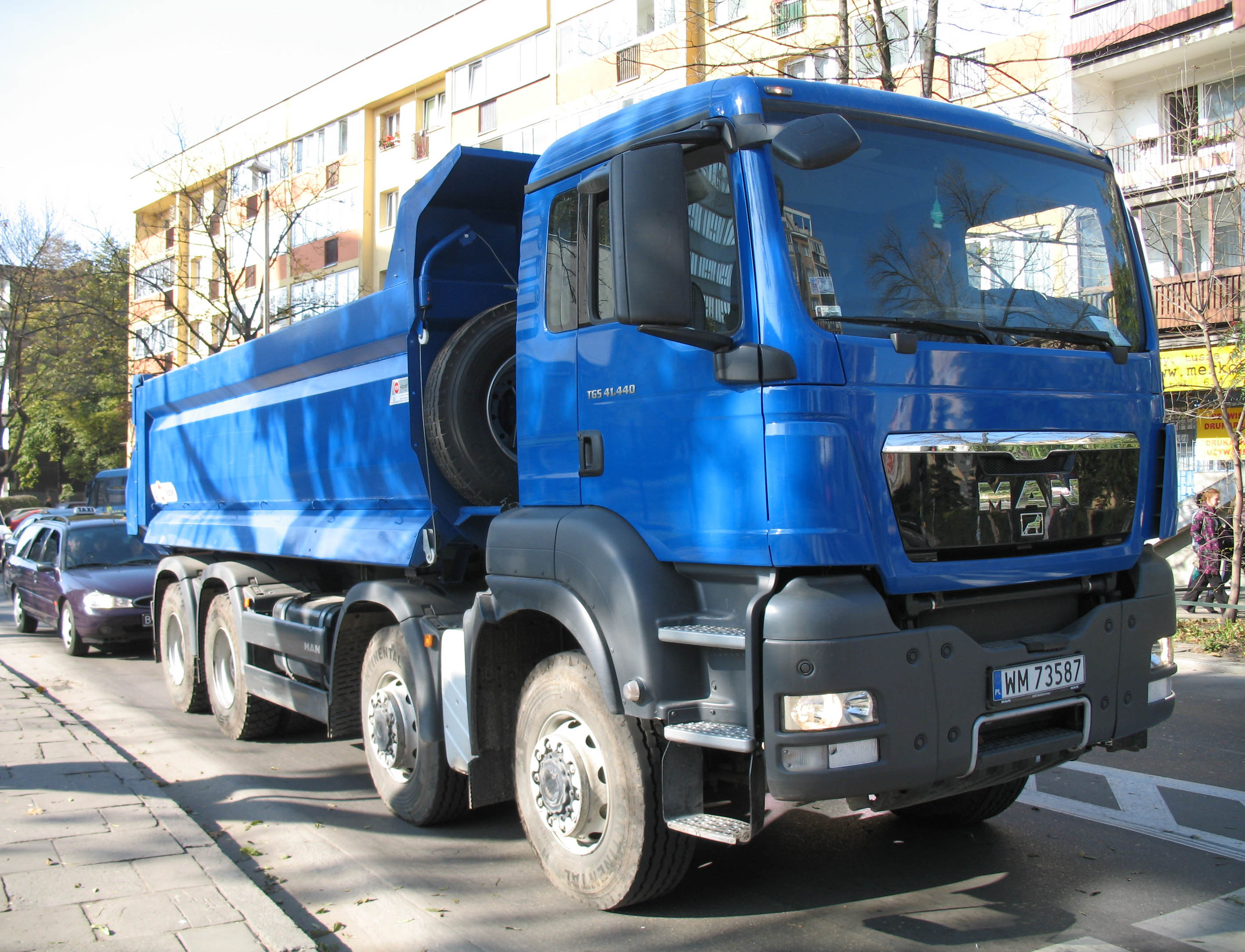 MAN TGS 41.440 truck in Kraków, Poland. Built in MAN Trucks company in Niepołomice near Kraków, Poland.